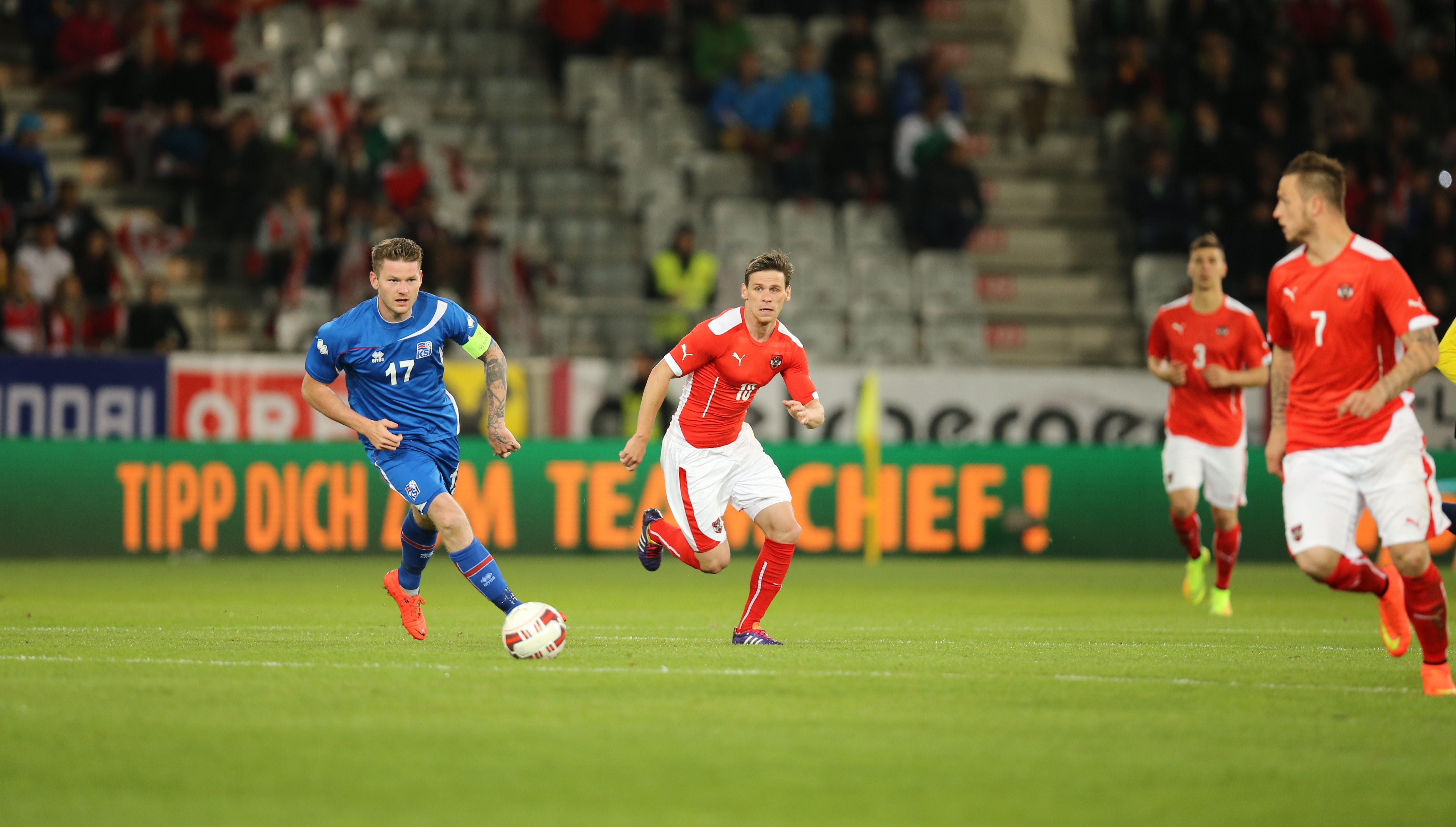 Austria - Iceland football match in Innsbruck, Austria on 2014-05-30. Austria in red, Iceland in blue.